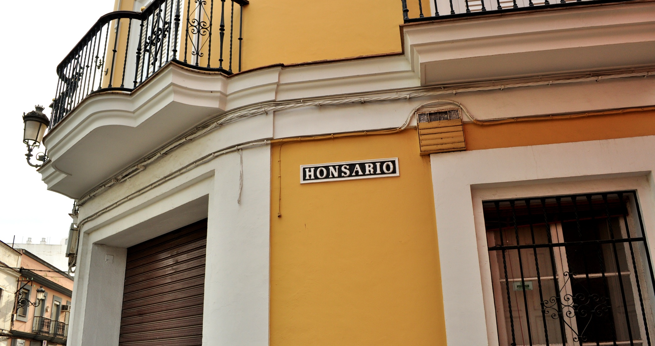 Honsario St, Jerez, where the Jewish cementery was